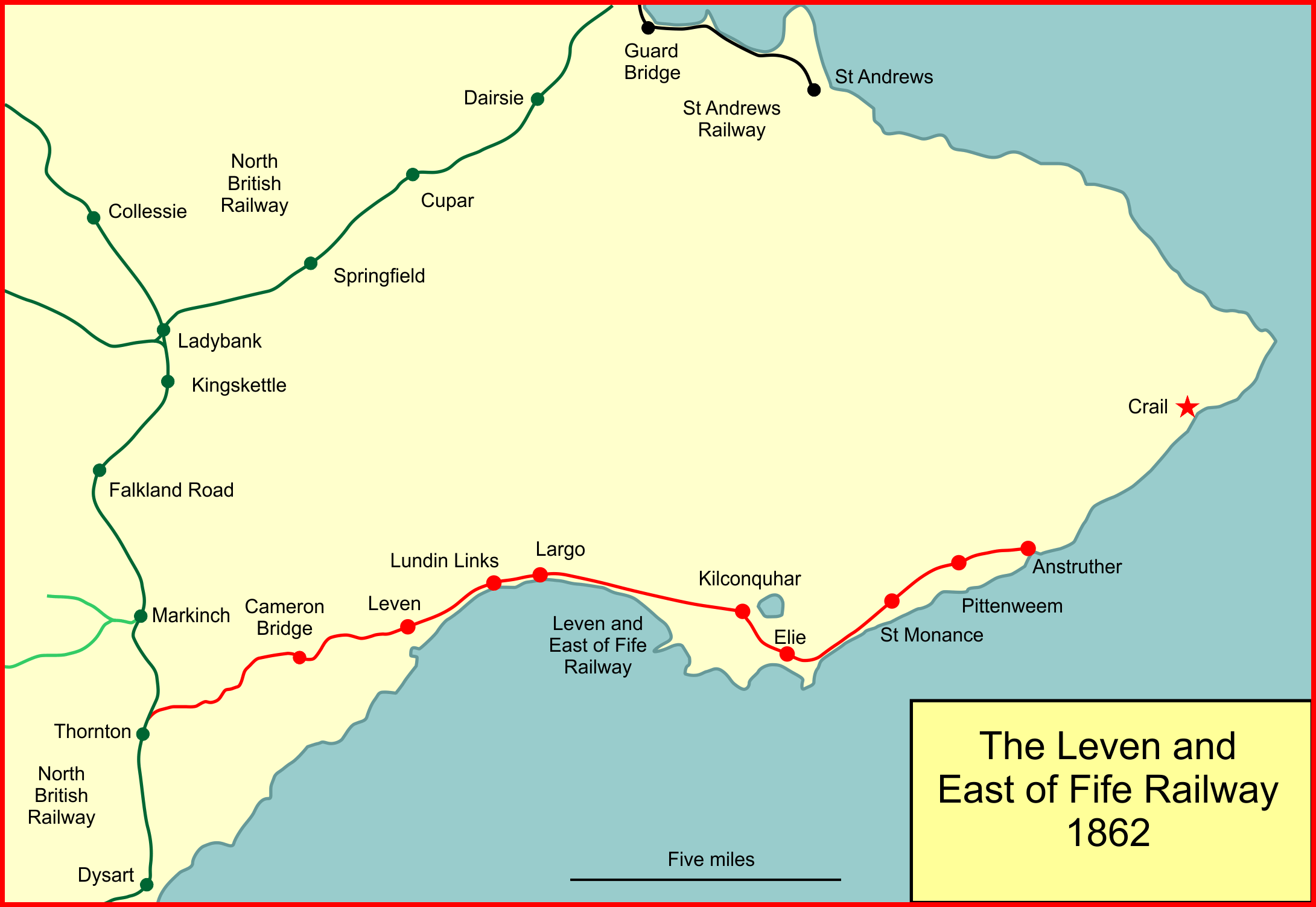 System map of the Leven and East of Fife Railway in Scotland in 1862